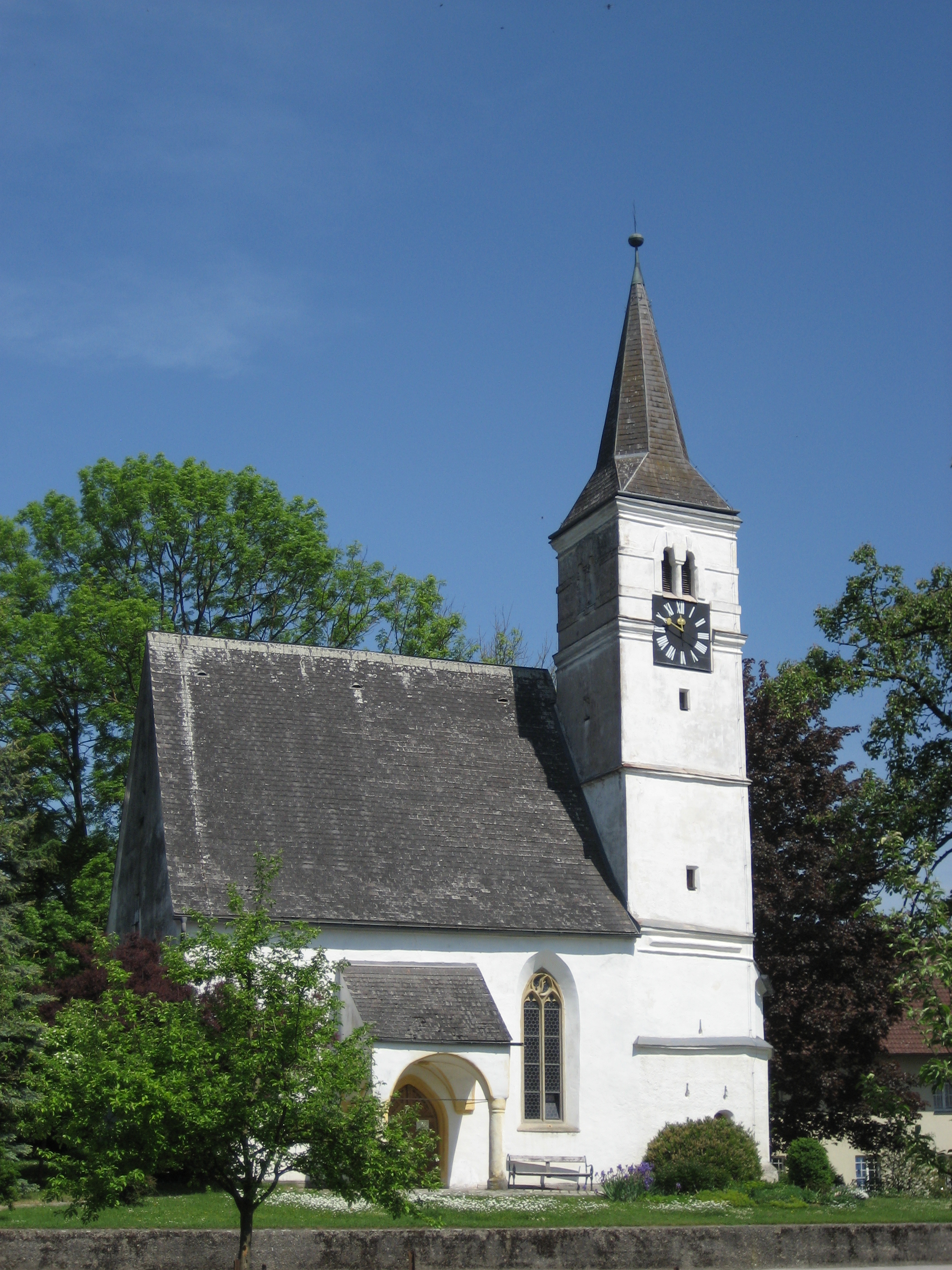 Dietach, Upper Austria, Austria, Europe: Subsidiary church in "Stadlkirchen" district.